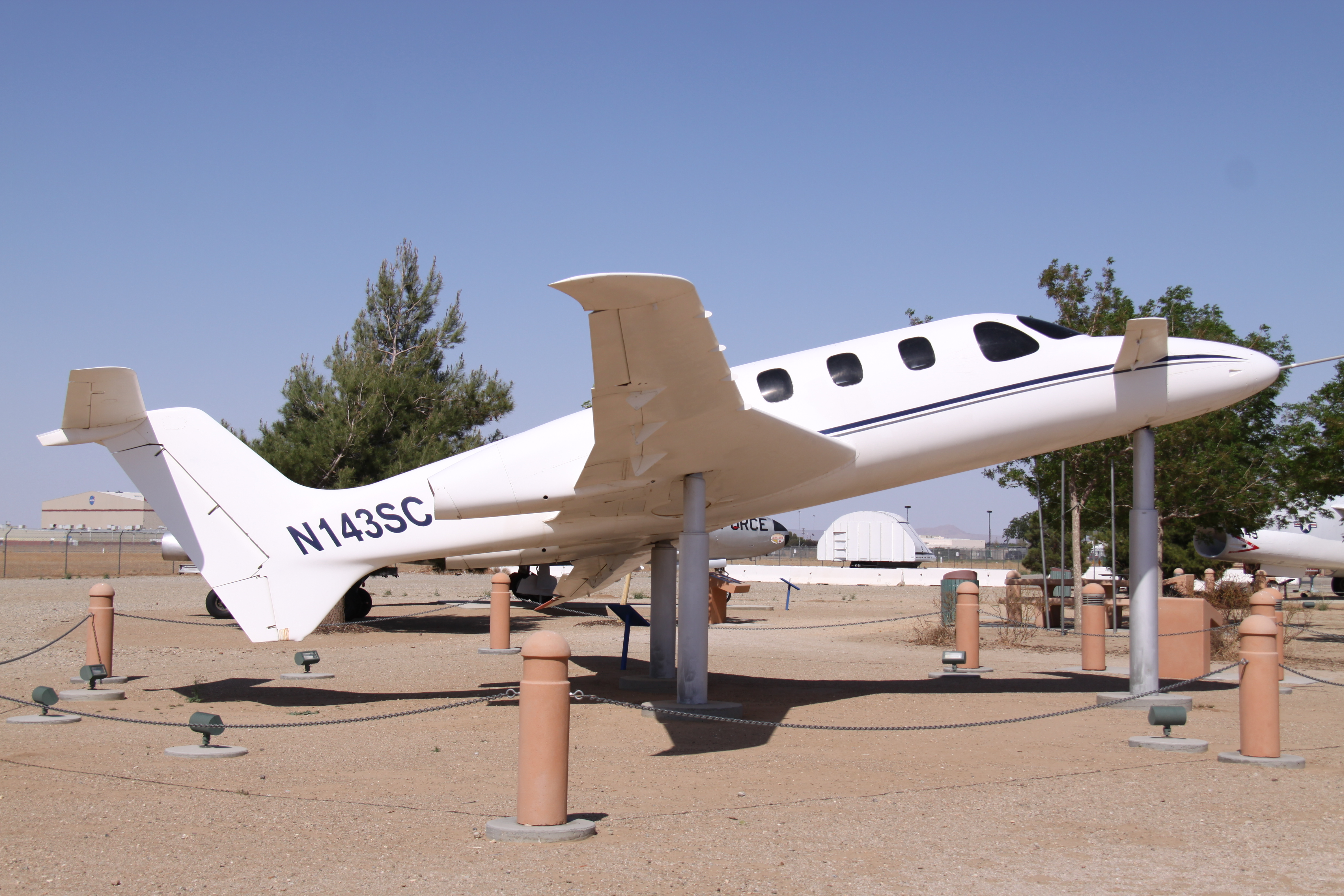 Scaled Composites Triumph (N143SC) At Palmdale